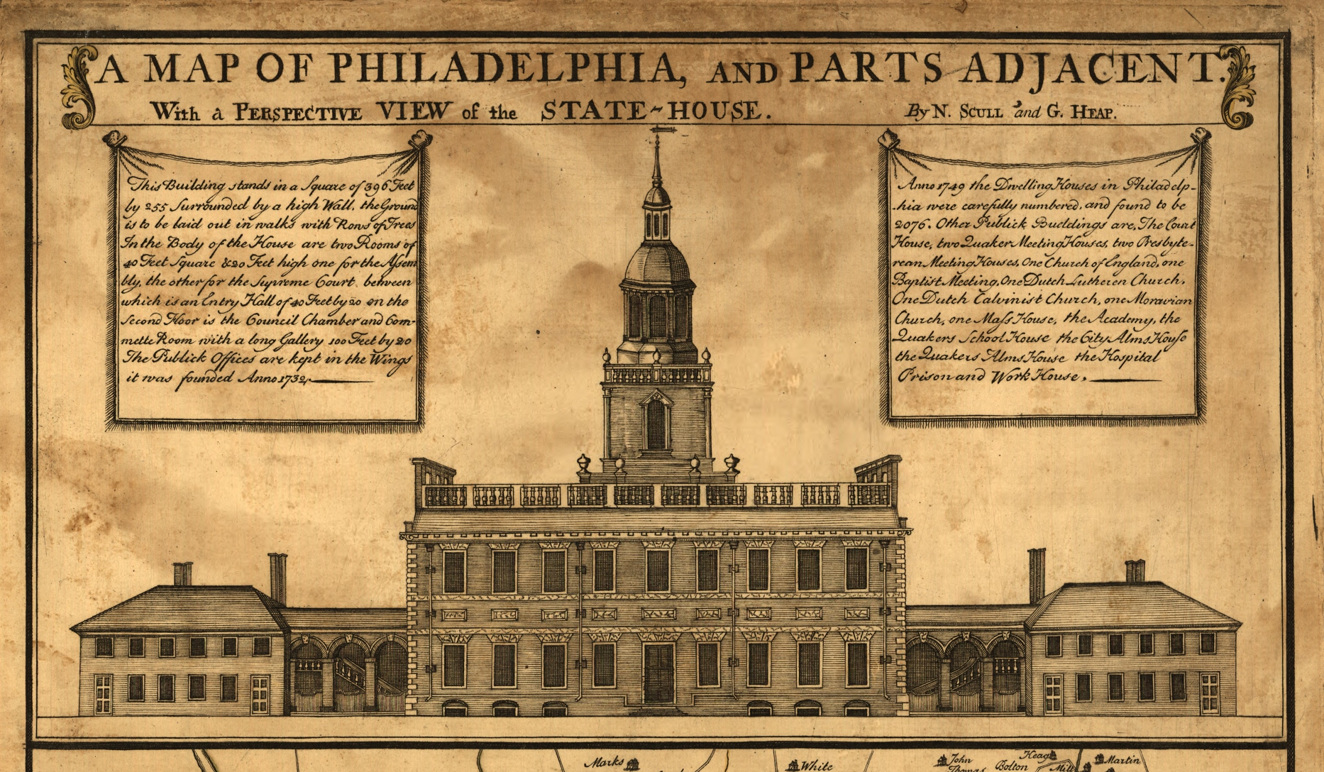 Detail of north elevation of Pennsylvania State House (Independence Hall), from 1752 map of Philadelphia, Pennsylvania.